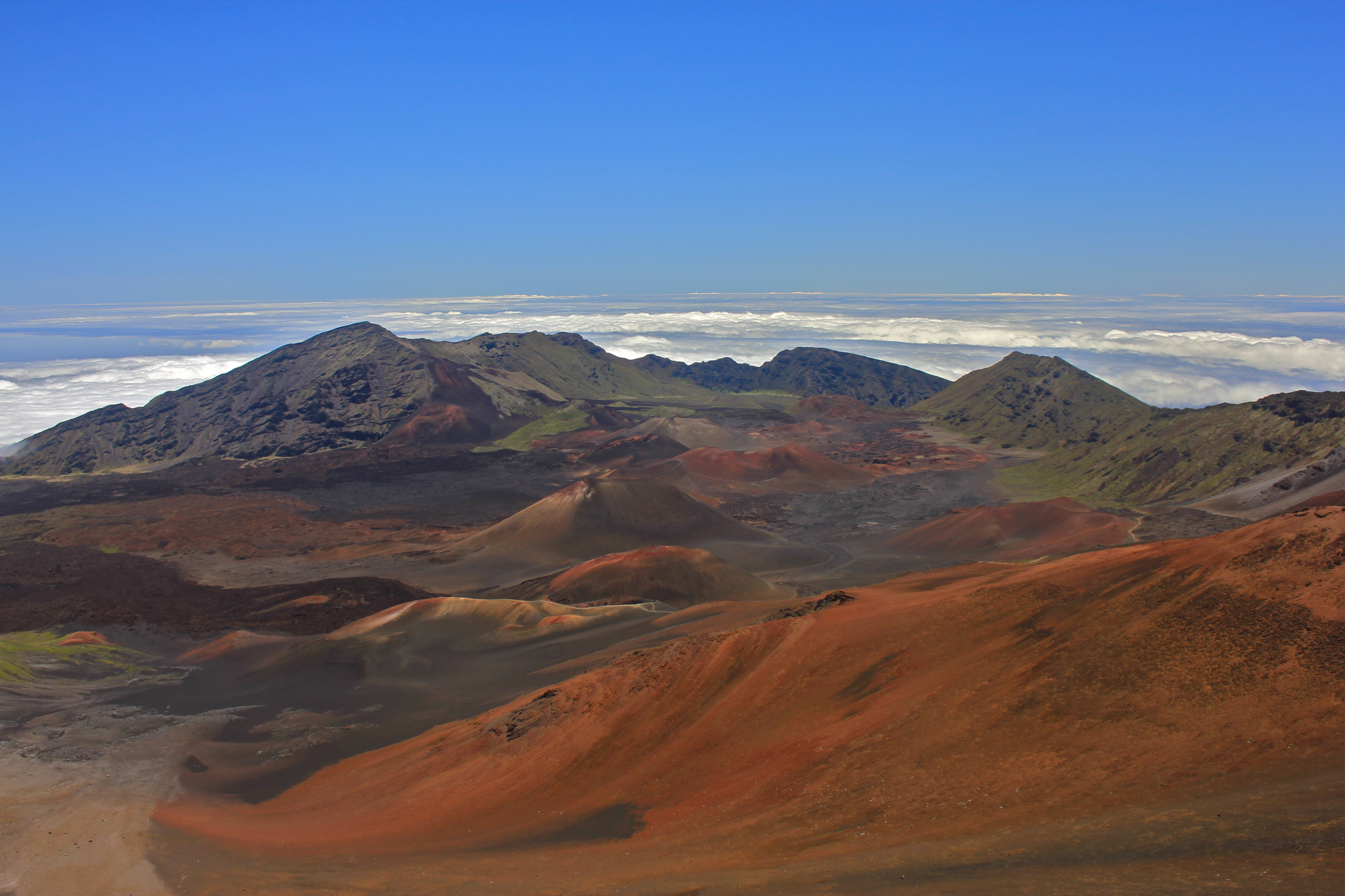 Haleakala National Park in Maui, Hawaii, USA.